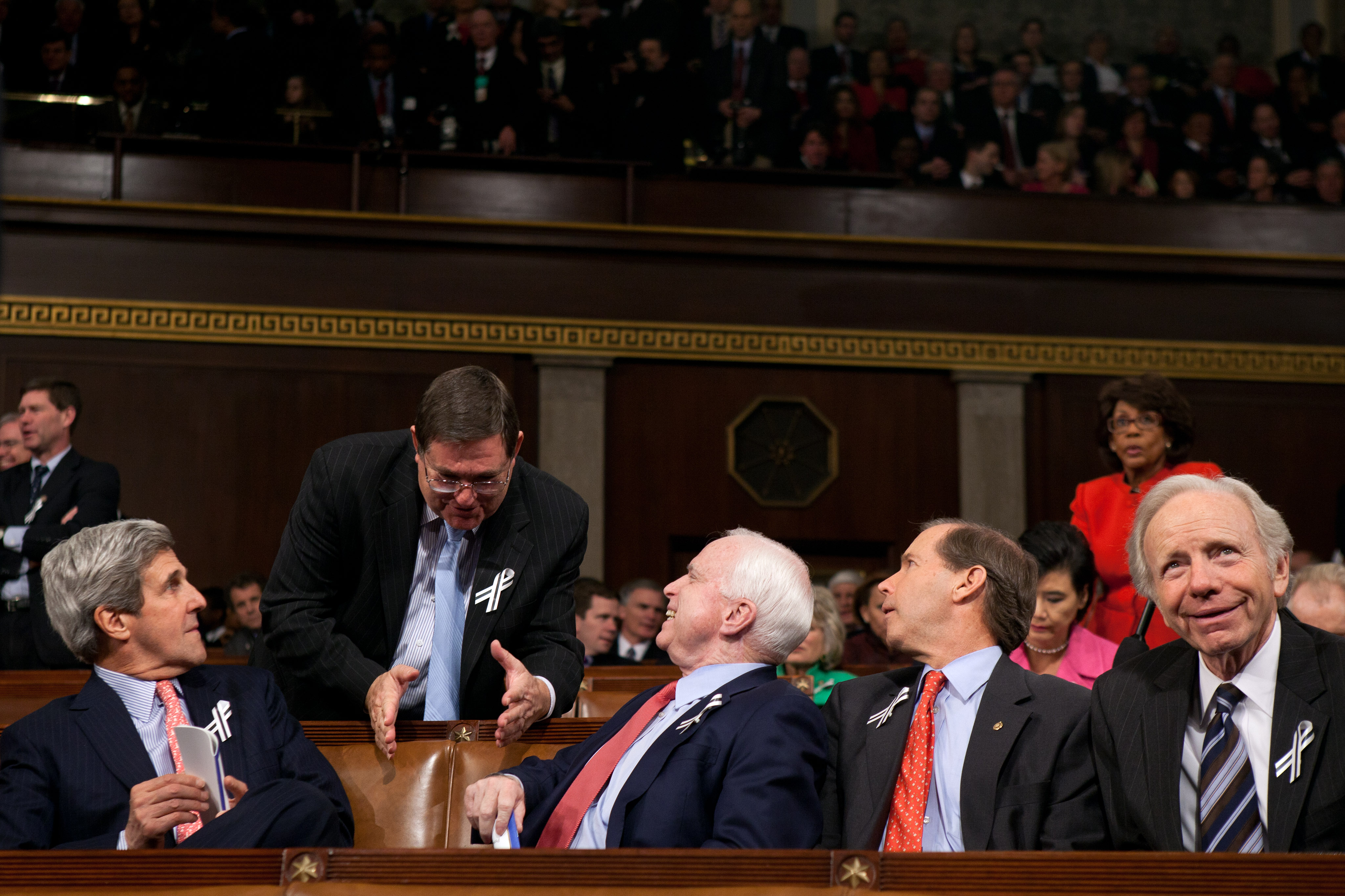 (Left to right) U.S. Senator John Kerry (D-MA), Representative Michael C. Burgess (R-TX), Senator John McCain (R-AZ), Senator Tom Udall (D-NM), and Senator Joe Lieberman (I-CT) in the House Chamber of the U.S. Capitol before the 2011 State of the Union Address.